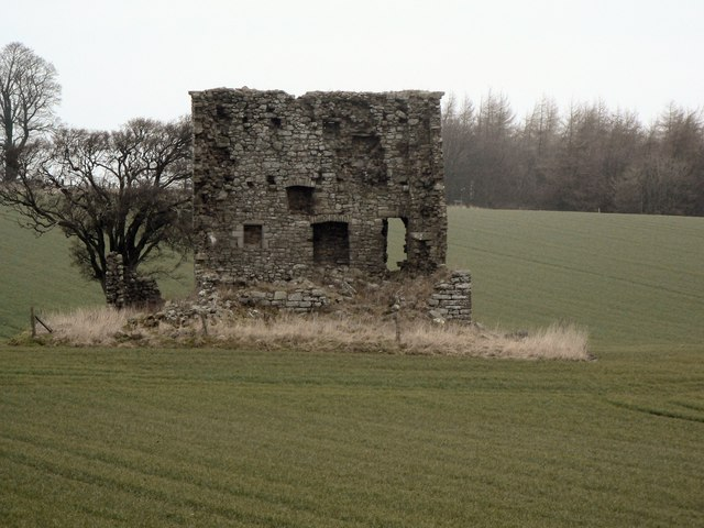 Bandon Tower Sad looking remains of a 16th century country house built for the Balfours of Bandon. It stands isolated in a field, yet is less than a mile outside the northern boundary of Glenrothes new town.